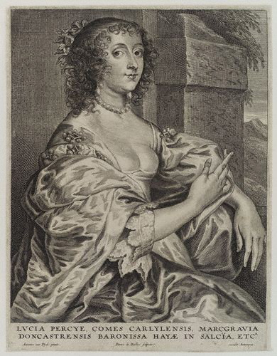 Lucy Hay, Countess of Carlisle (1599-1660)